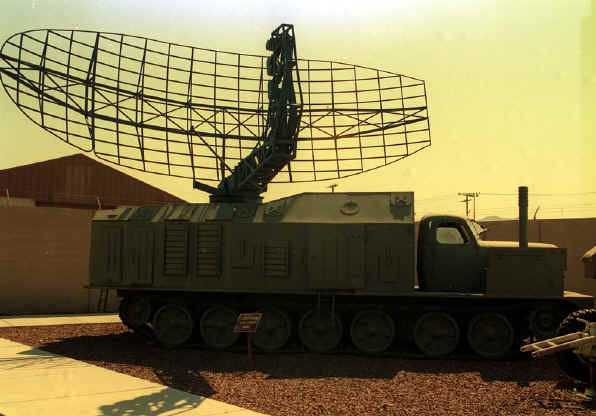 A U.S. military photo taken from "Information presented on this website is considered public information and may be distributed or copied - unless otherwise noted. Use of appropriate byline/photo/image credits is requested."